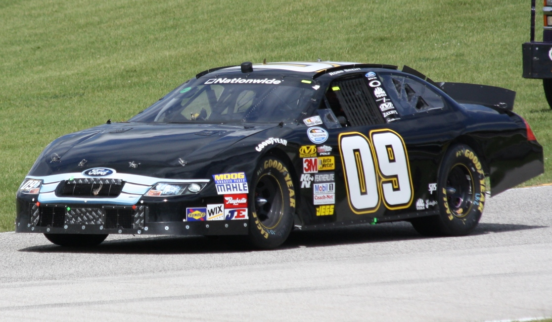 The NASCAR racecar for driver Robb Brent at the 2010 Bucyrus 200 at Road America.